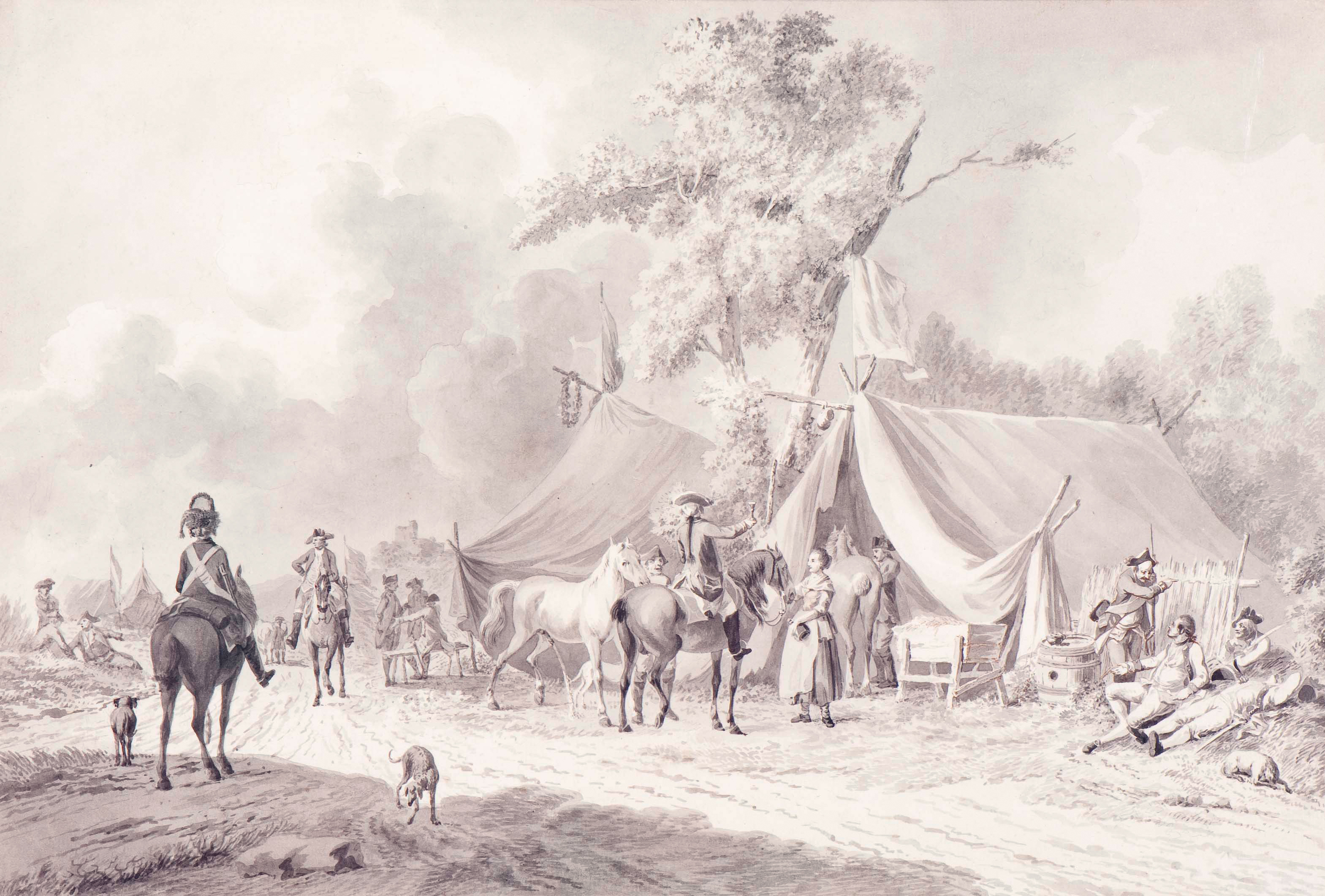 French cavalery in a camp brown pen and grey brush, grey wash 27.8 x 41.7 cm signed verso